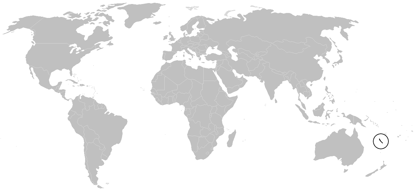 World distribution of harvestman family Troglosironidae, after Pinto-da-Rocha et al. 2007: 79.